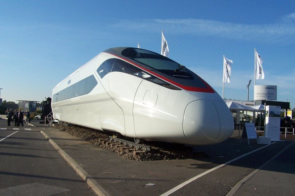 Zefiro 380 at InnoTrans 2010.